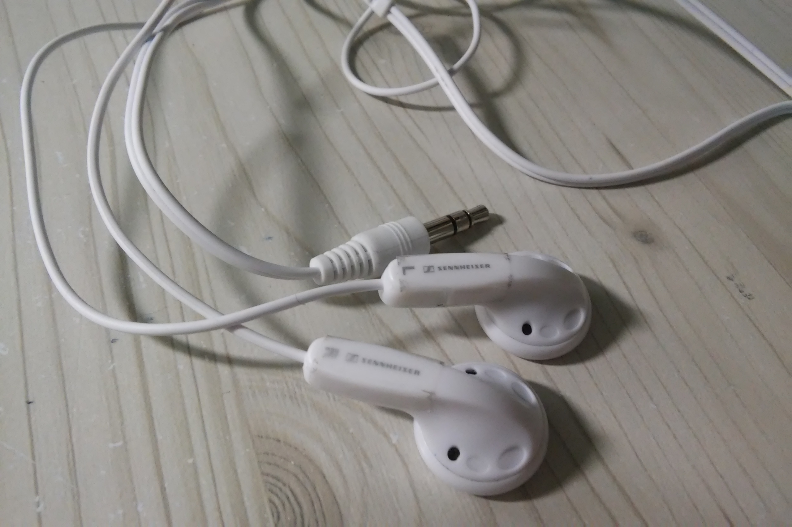 Sennheiser earphone MX400ii